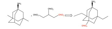 Nitromemantine